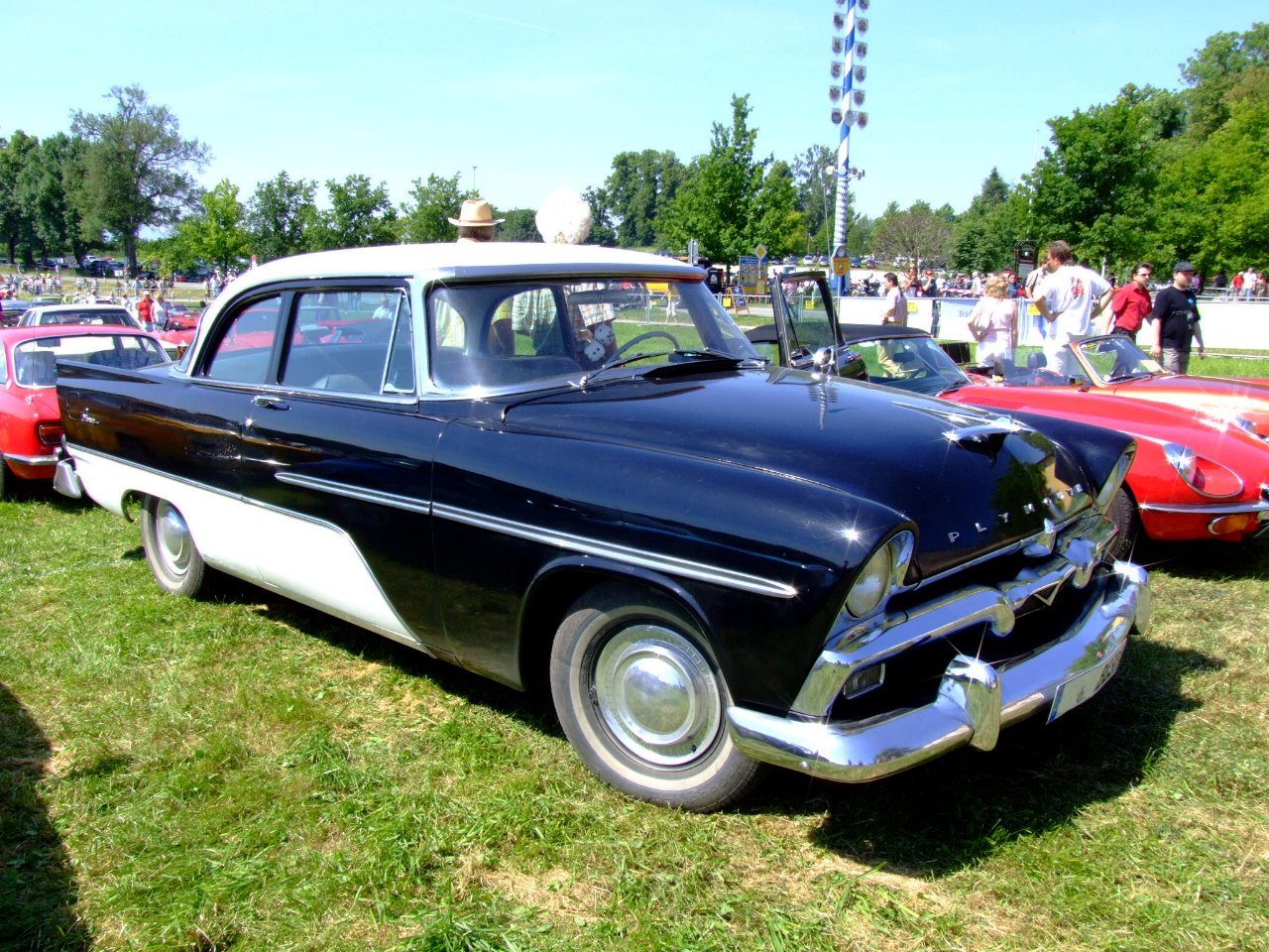 Summary Quelle: selbst fotografiert, 06/2006 Fotograf: Späth Chr. Licensing